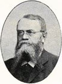 Svante Ödman (1836-1927), Swedish psychiatrist